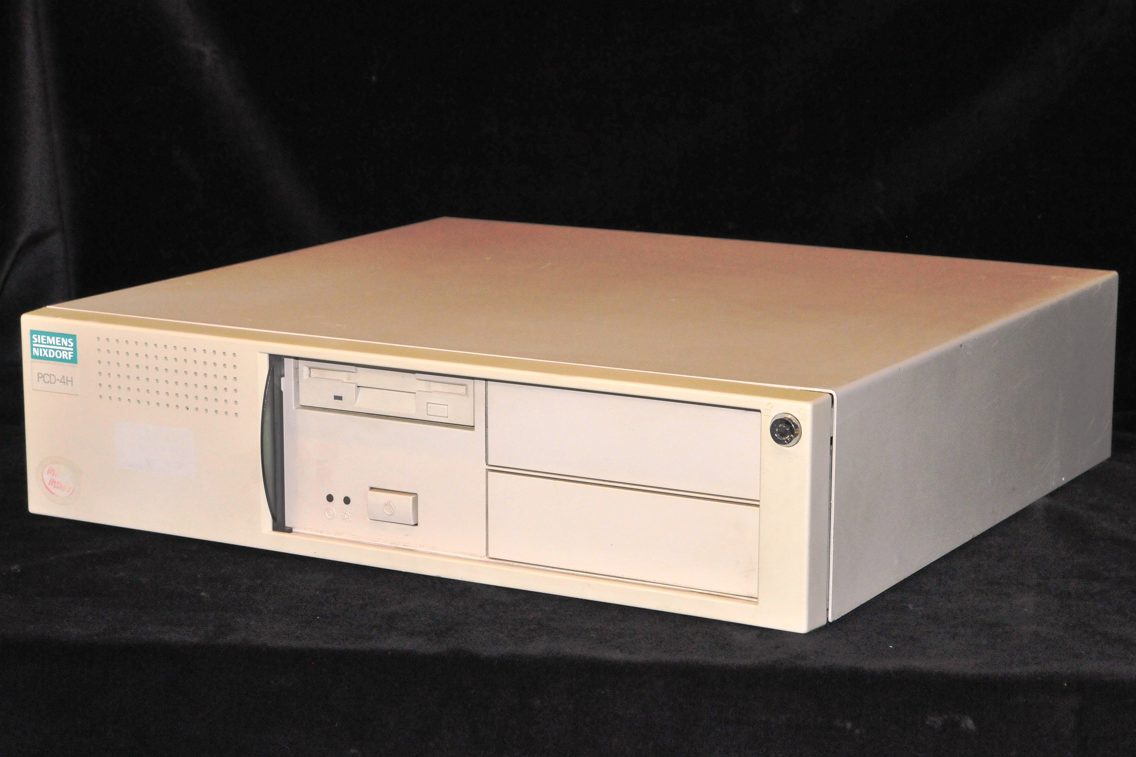 Personal Computer from 1994.